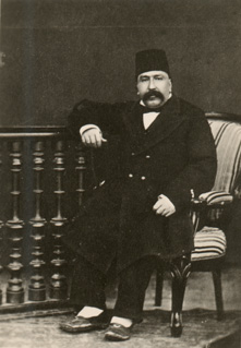 Mohammad Taher Mirza Eskandari a famous translator of Alexander Dumas the father into Persian, such as the Count of Monte Cristo, the Three Musqueteers, and Queen Margot. He was cousin and French tutor of Nasser-al-din Shah and Mozafar-al-din Shah. He was born 1245 (1929) in Tabriz and died 1317 (1899) in Tehran. He is the eldest son of Eskandar Mirza who is the 6th son of the crown prince Abbas Mirza (the son of Fatali Shah)